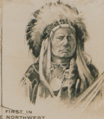 Original caption: "First in the northwest. A North American Indian's head."